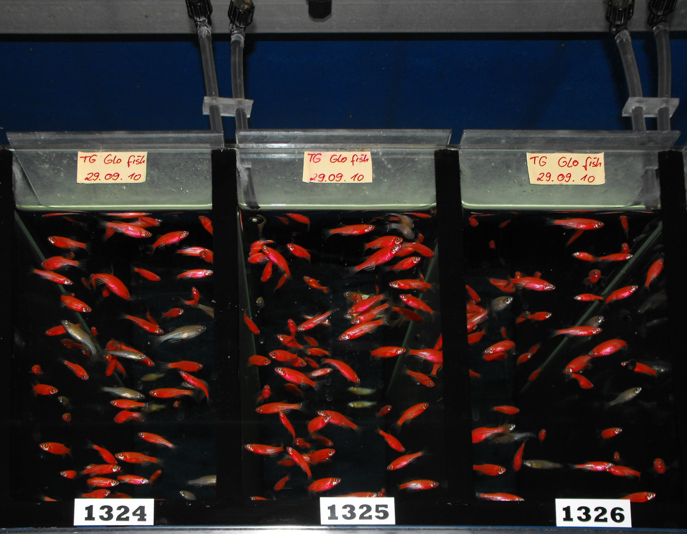 Danio rerio GlowFish aquarias - breeding for scientific purposes.